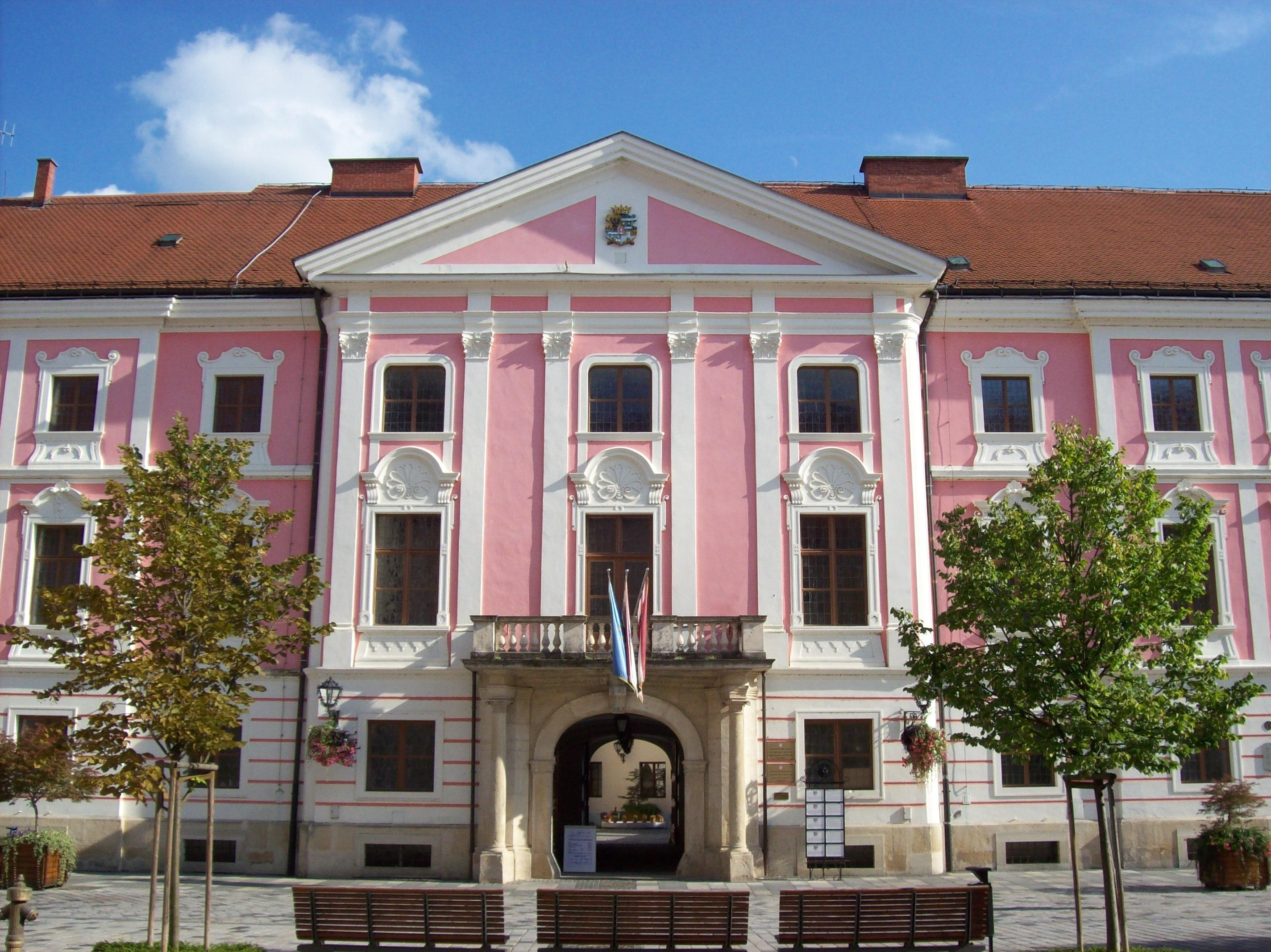 Varaždin, County palace